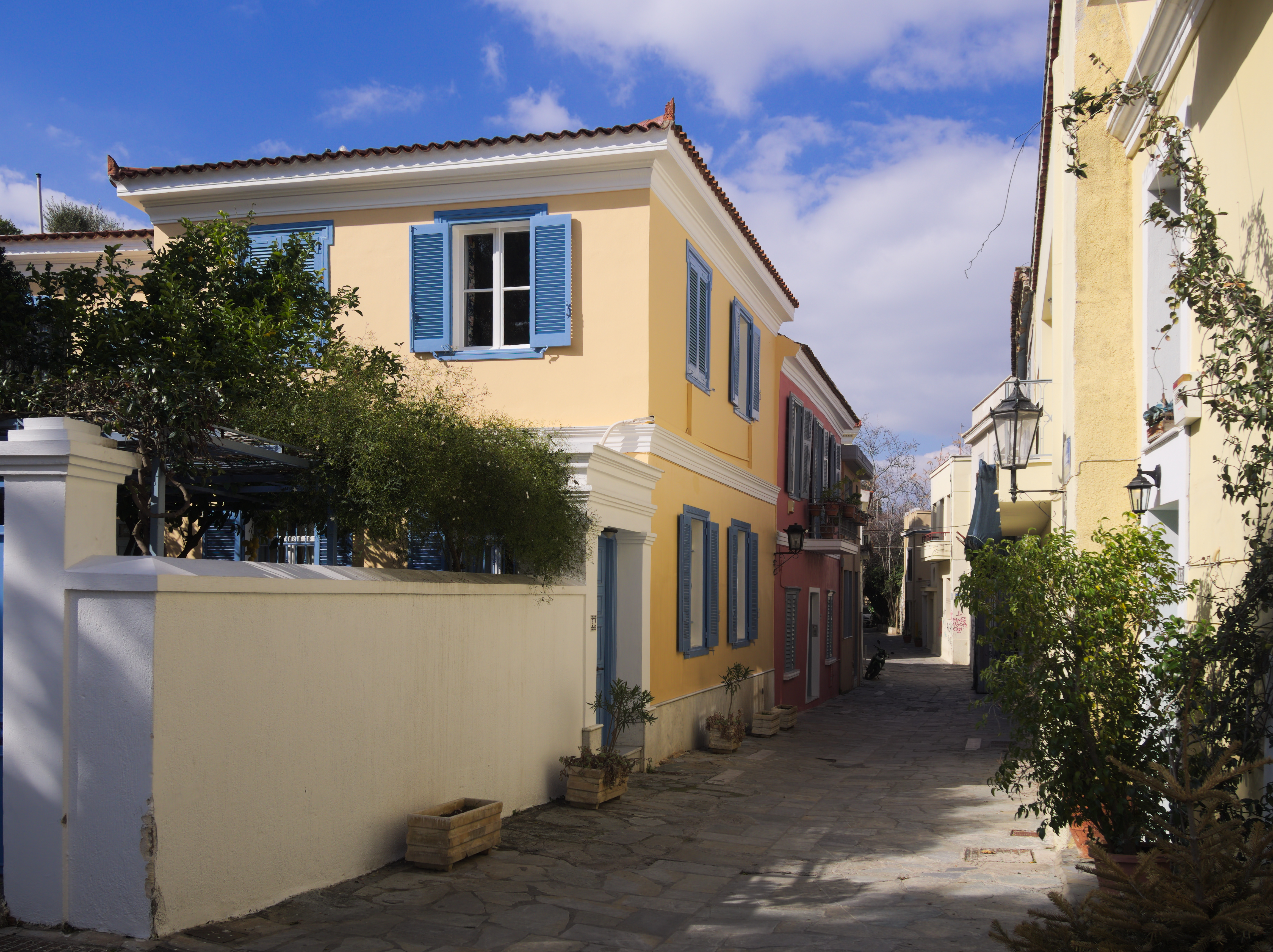 Houses in Plaka, Athens. Diogenous street.